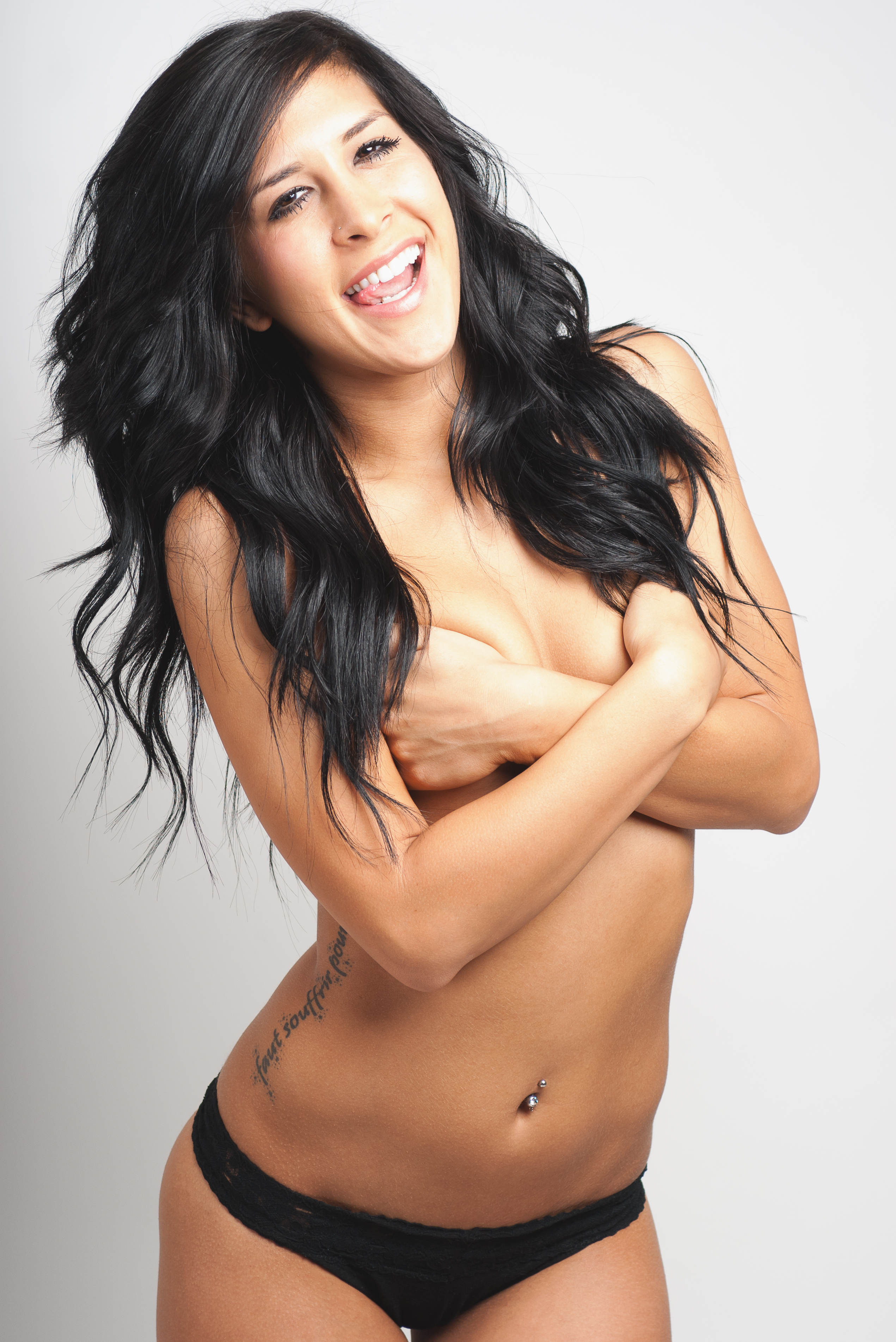 Handbra.